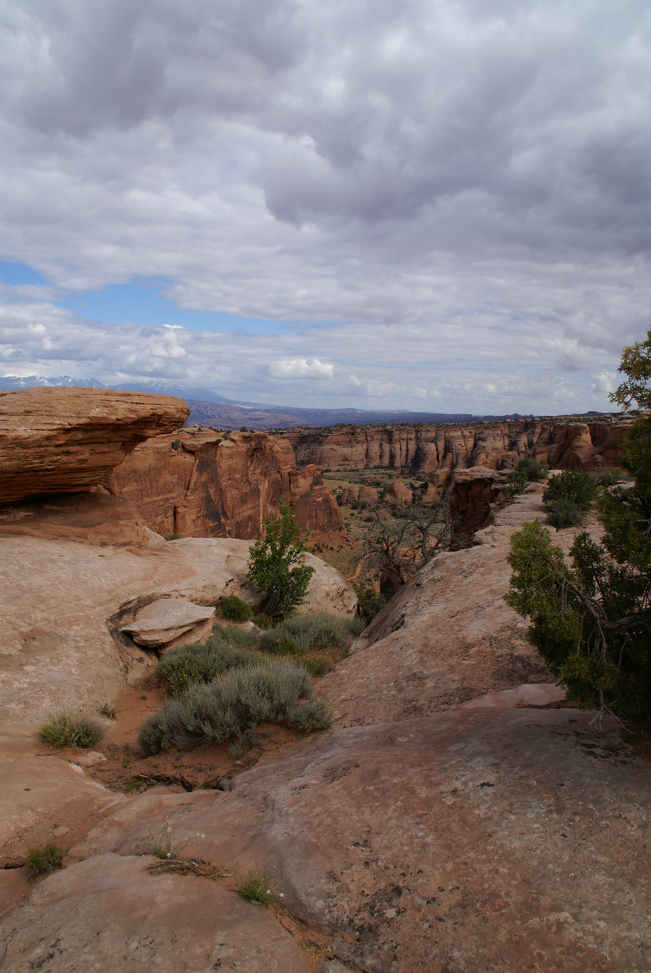 A landscape of a park in Moab, Utah.